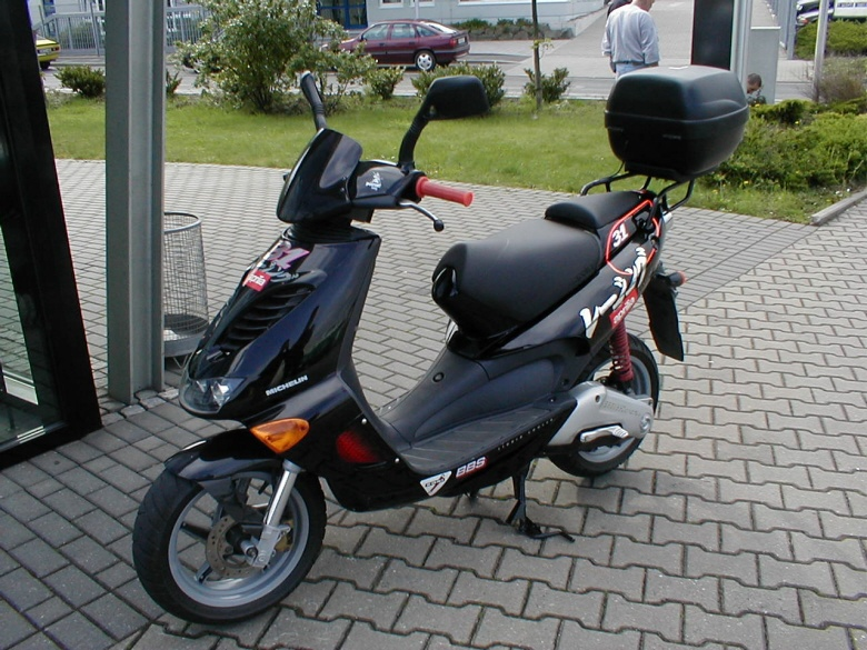 ApriliaSrTetsuyaHarada